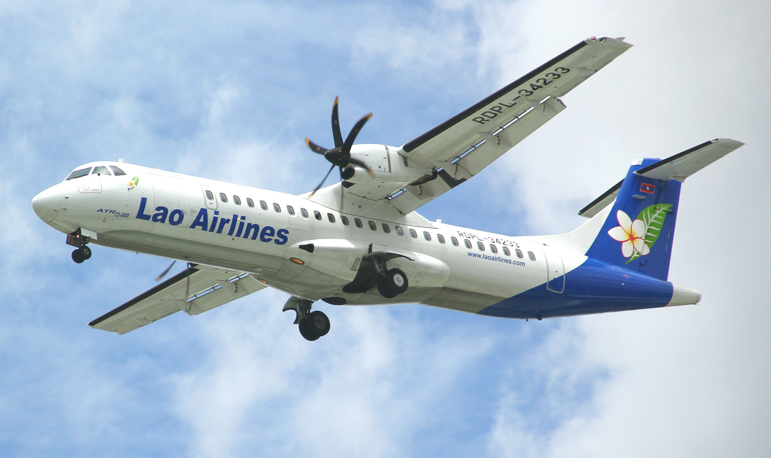 An ATR 72-600 (RDPL-34233) of Lao Airlines landing at Tan Son Nhat International Airport in Ho Chi Minh City. This aircraft crashed as Lao Airlines Flight 301 one month later.